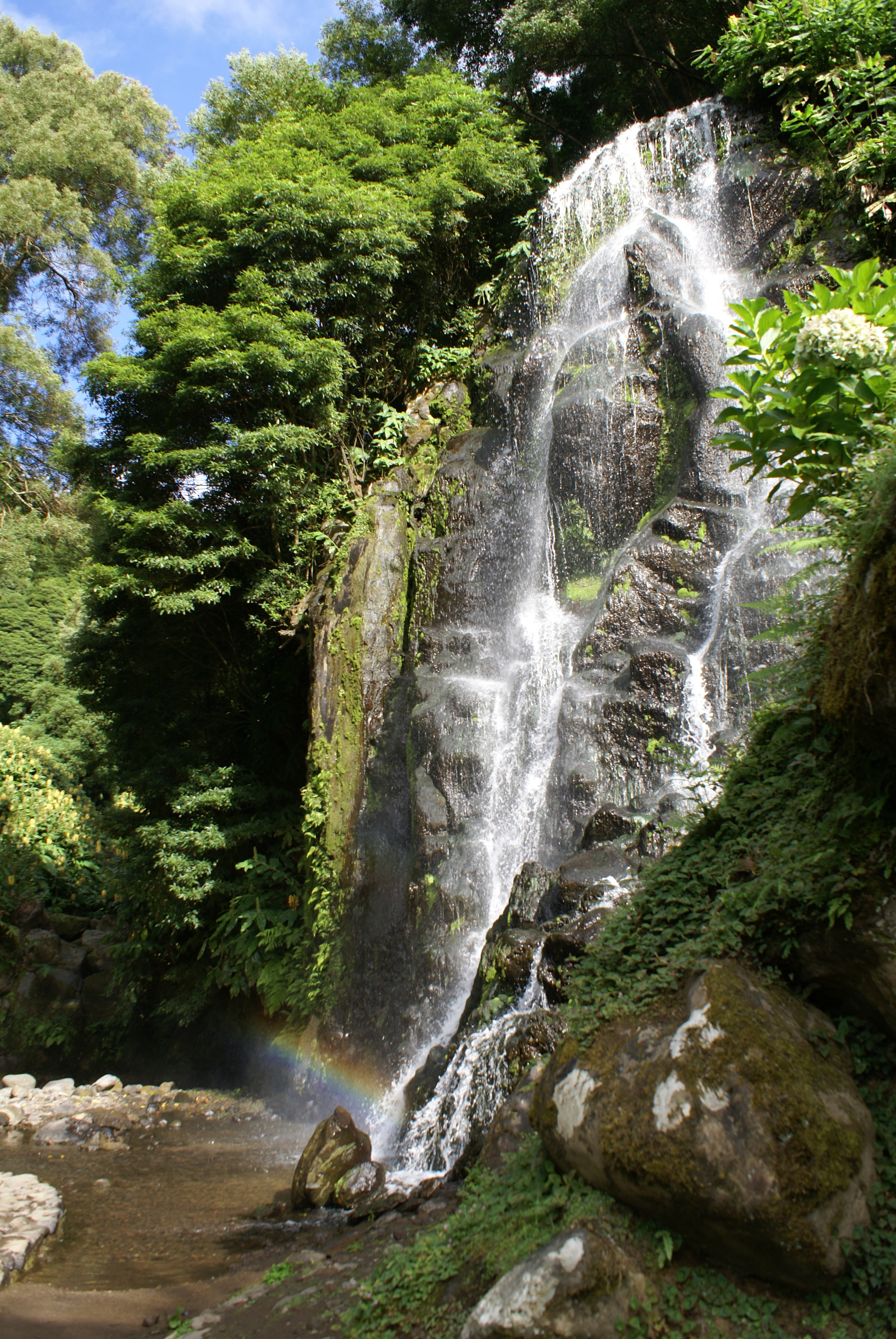 The waterfall of Ribeira dos Caldeirões in the river garden, civil parish of Achada, municipality of Nordeste (Azores), Portugal